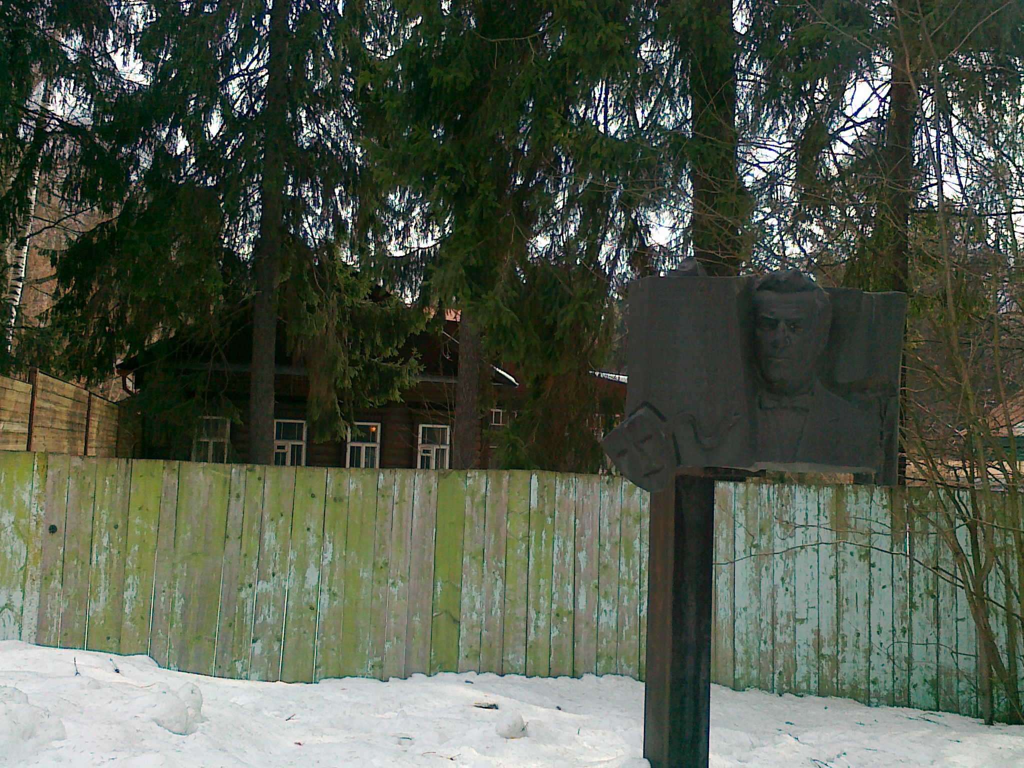 Дача Мейерхольда в Балашихе